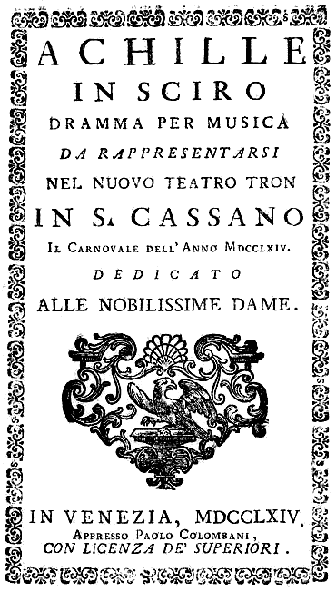 Ferdinando Bertoni - Achille in Sciro - titlepage of the libretto - Venice 1764 Achilles in Sciro drama for music to be represented in the new Theater Tron in S. Cassano The carnovale of the year 1764. Dedicated to the most noble ladies. In Venice, 1764. Following Paulo Colombani, with the license of the superior.